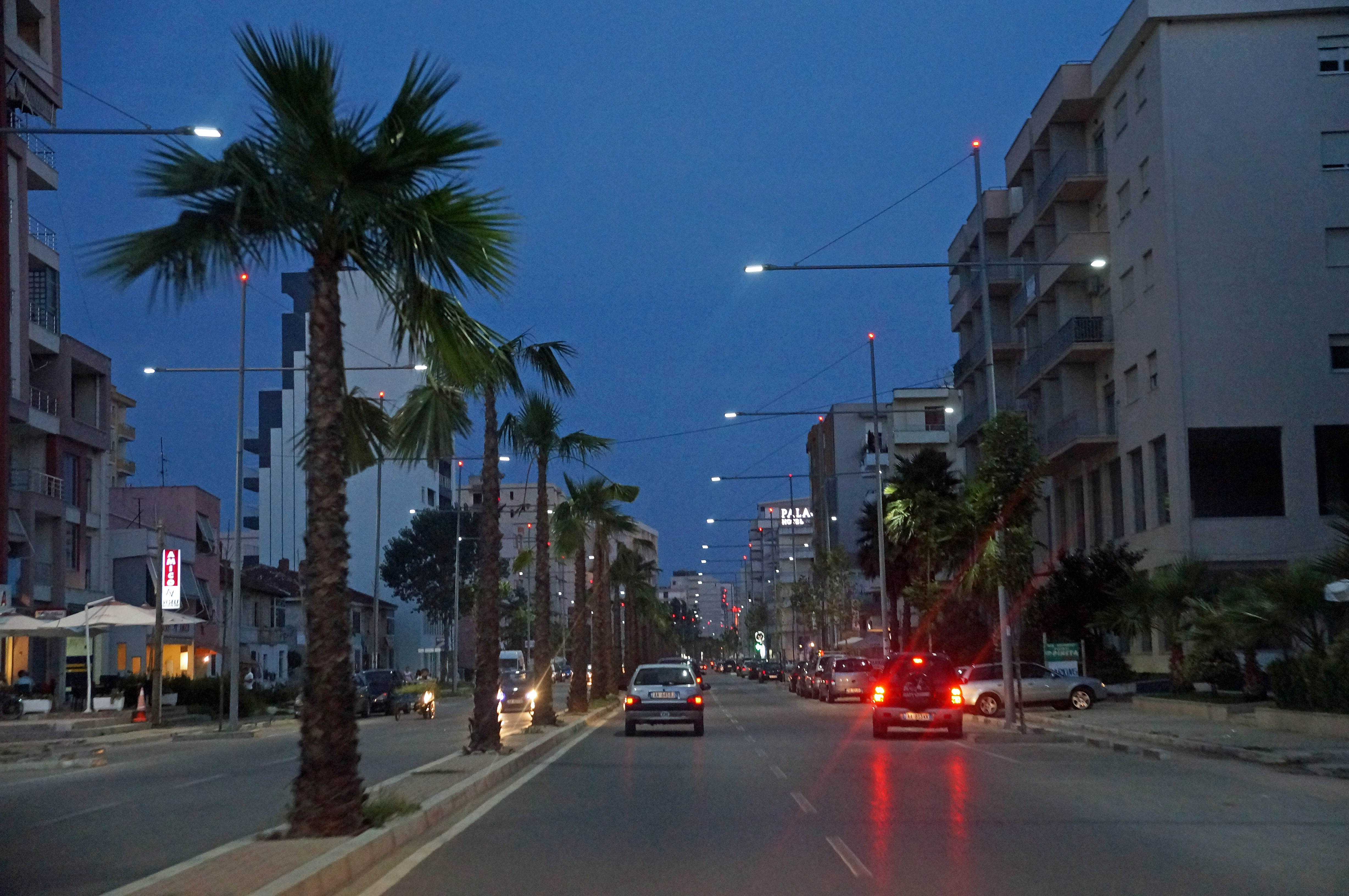 Durrës Plazh – main street